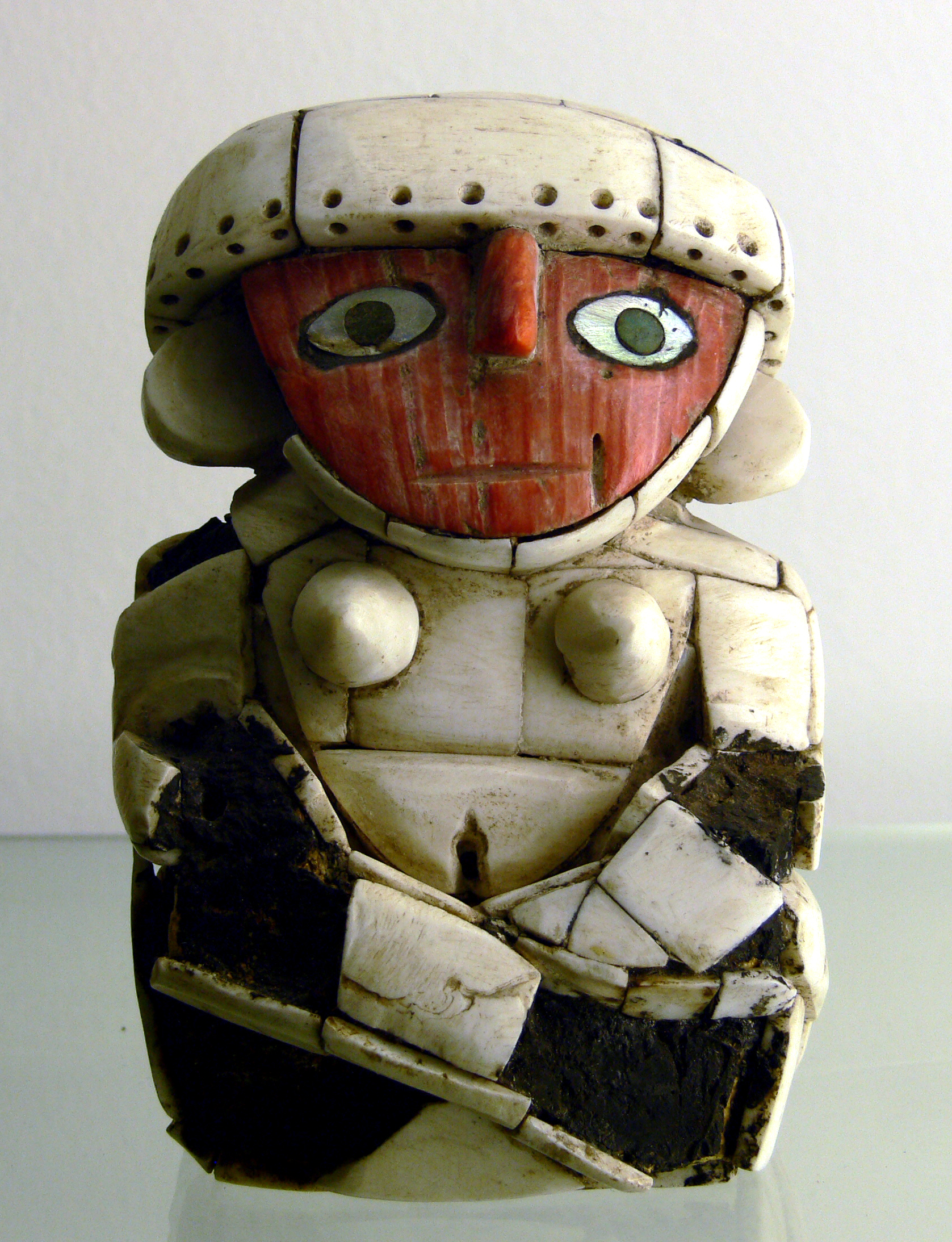 Figurine, Inca (c. 1400–1532 AD), made from Spondylus; Ethnological Museum, Berlin, Germany